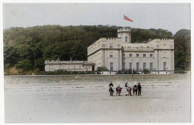 An early colourised picture of the Castle Mona